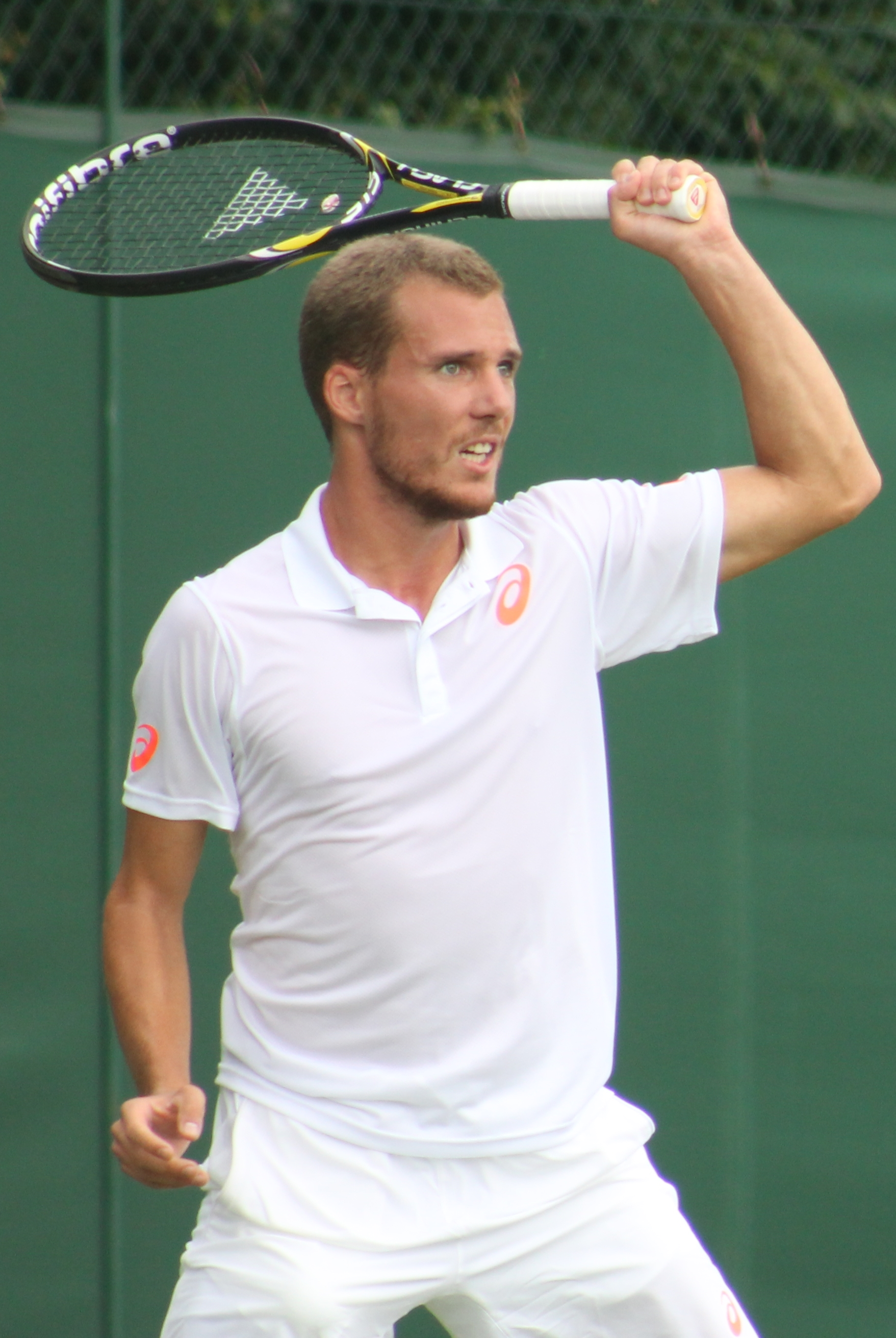 Michon WMQ14 (2) - Copy